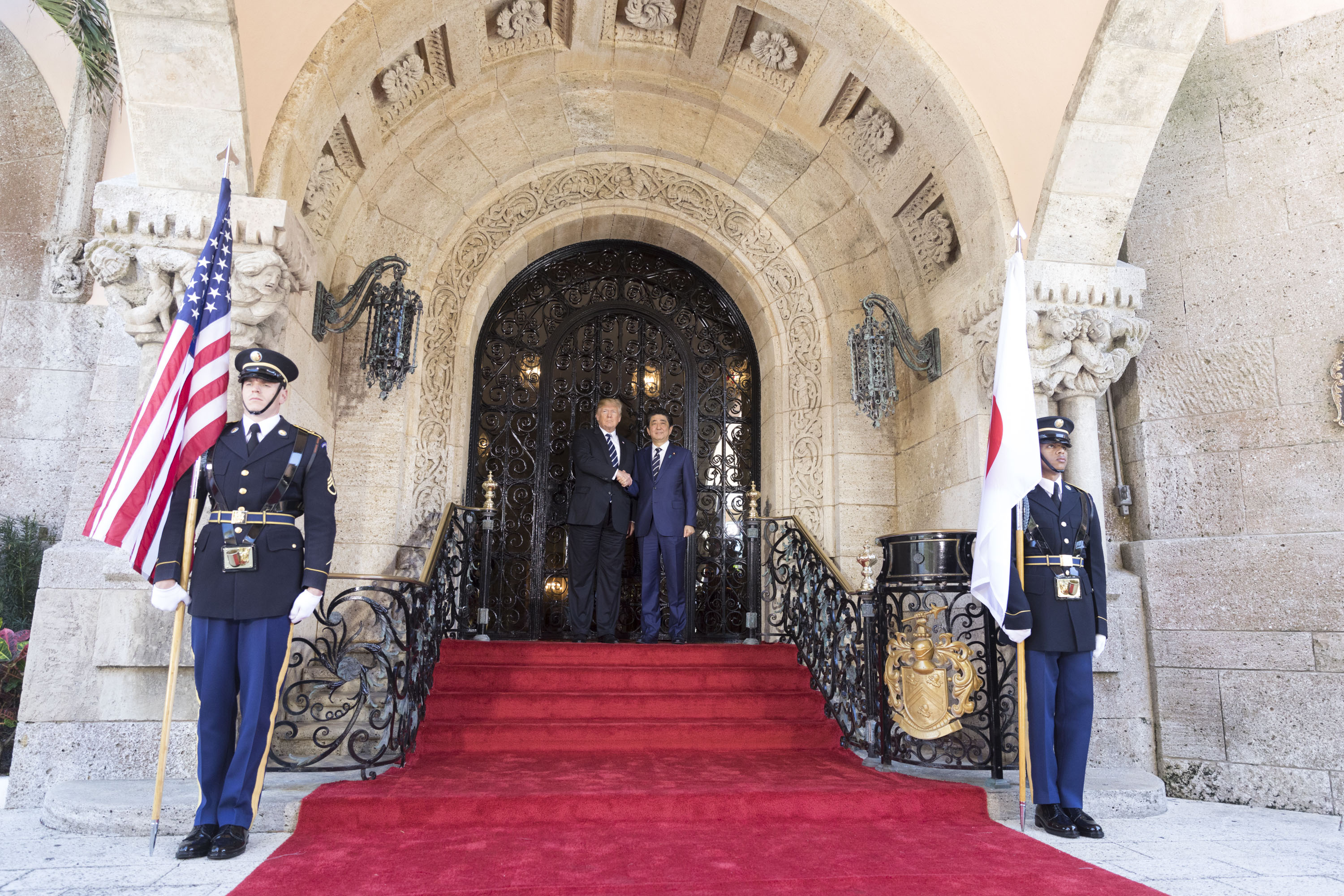 President Donald J. Trump and Prime Minister Shinzo Abe of Japan. April 17, 2018 (Official White House Photo by Shealah Craighead)